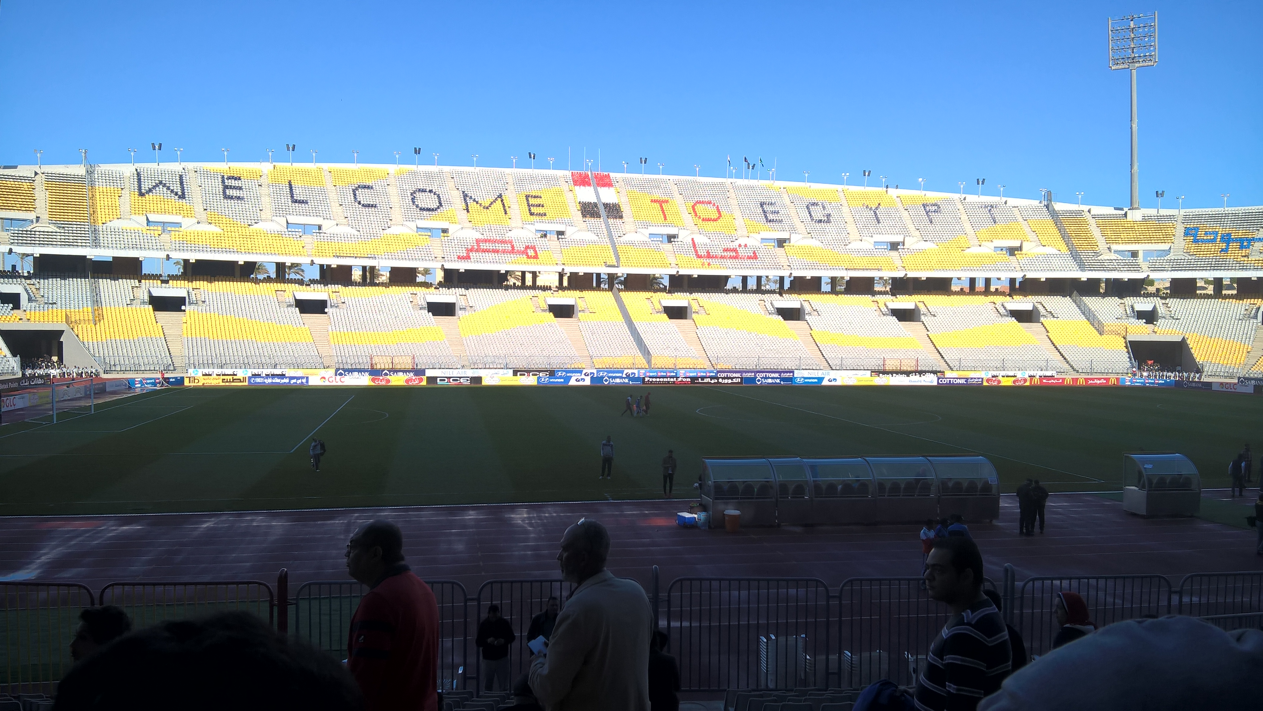 Borg El Arab Stadium on 15 April 2017 few hours before the start of Smouha v Bidvest Wits match in the 2017 CAF Confederation Cup play-off qualifying round.